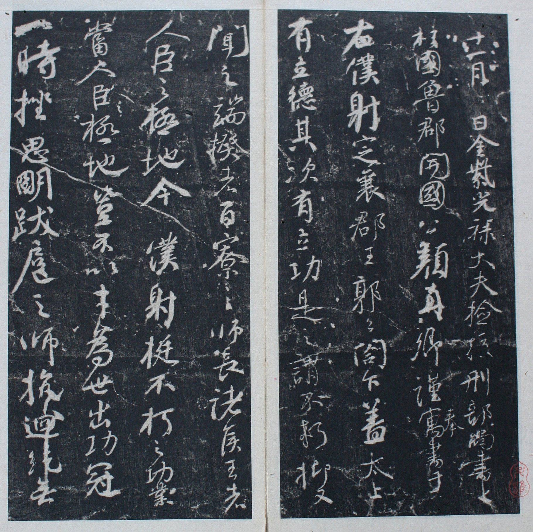 Rubbing Controversy of Seating Protocol Yan Zhenqing, 17th century